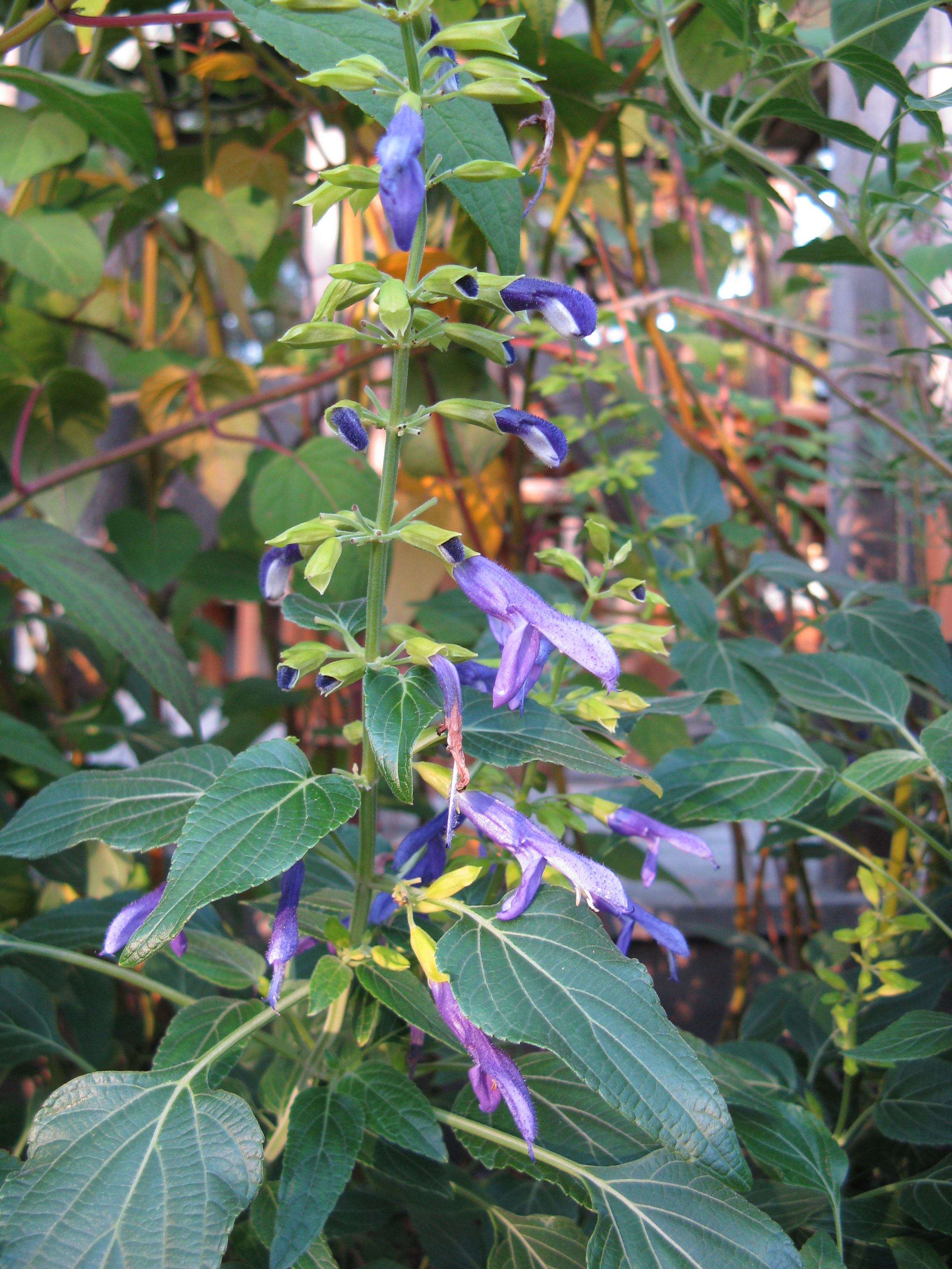 Salvia mexicana 'Limelight' Place:Osaka Prefectural Flower Garden,Osaka,Japan